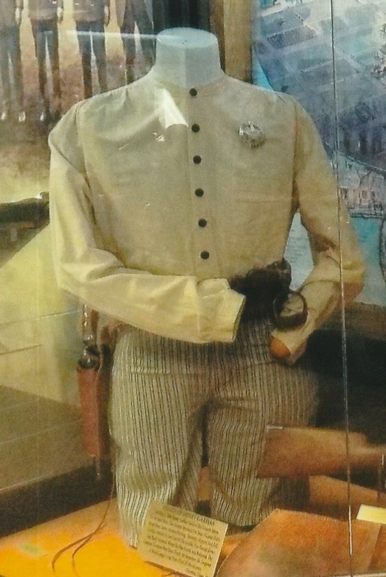 Henry Garfias 1881 sheriff uniform